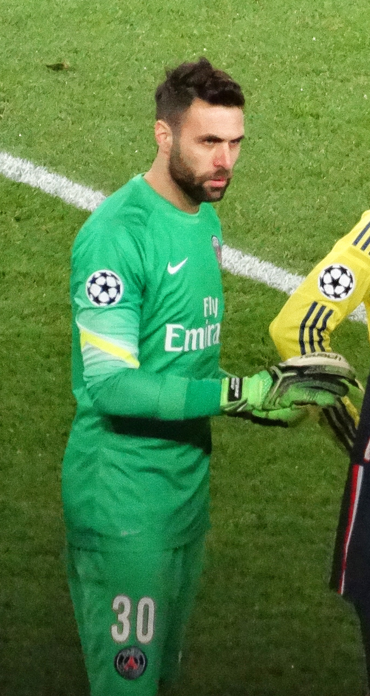 Salvatore Sirigu (Italian pronunciation: [salvaˈtore ˈsiriɡu]; born 12 January 1987) is an Italian footballer who plays as a goalkeeper for Ligue 1 club Paris Saint-Germain and Italy national football team. Since 2010 he has been a regular member of the Italian national team, selected for major tournaments such as UEFA Euro 2012 and 2014 FIFA World Cup. Since his emergence as one of the best and most reliable Italian goalkeepers, he is widely considered as the heir-apparent of Gianluigi Buffon, due to his consistency, strength, composure, mentality, and his reflexes